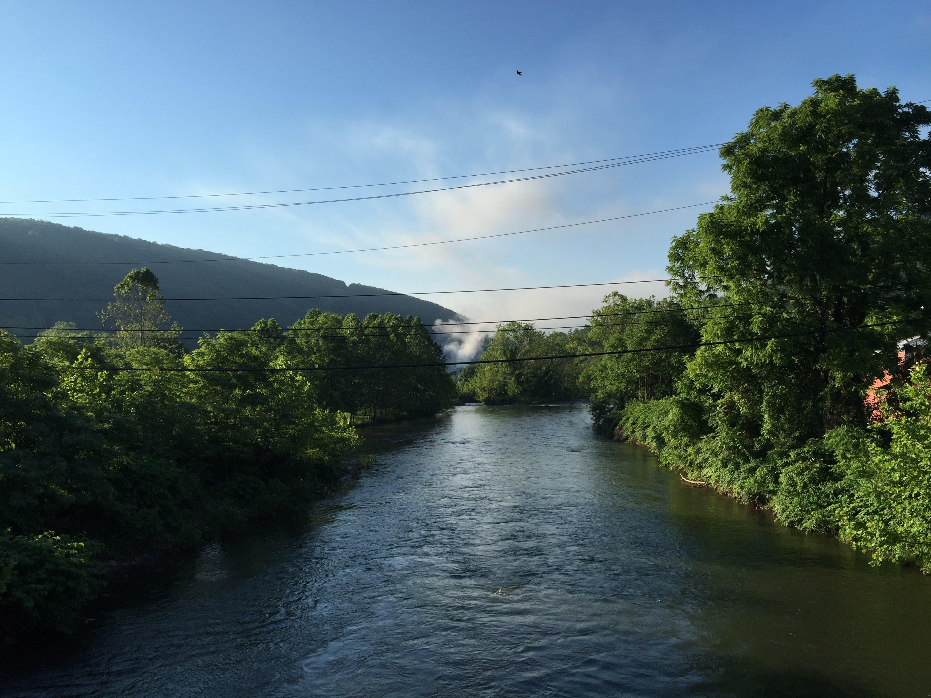 View east down the North Branch Potomac River from the Piedmont-Westernport Bridge between Piedmont, Mineral County, West Virginia and Westernport, Allegany County, Maryland